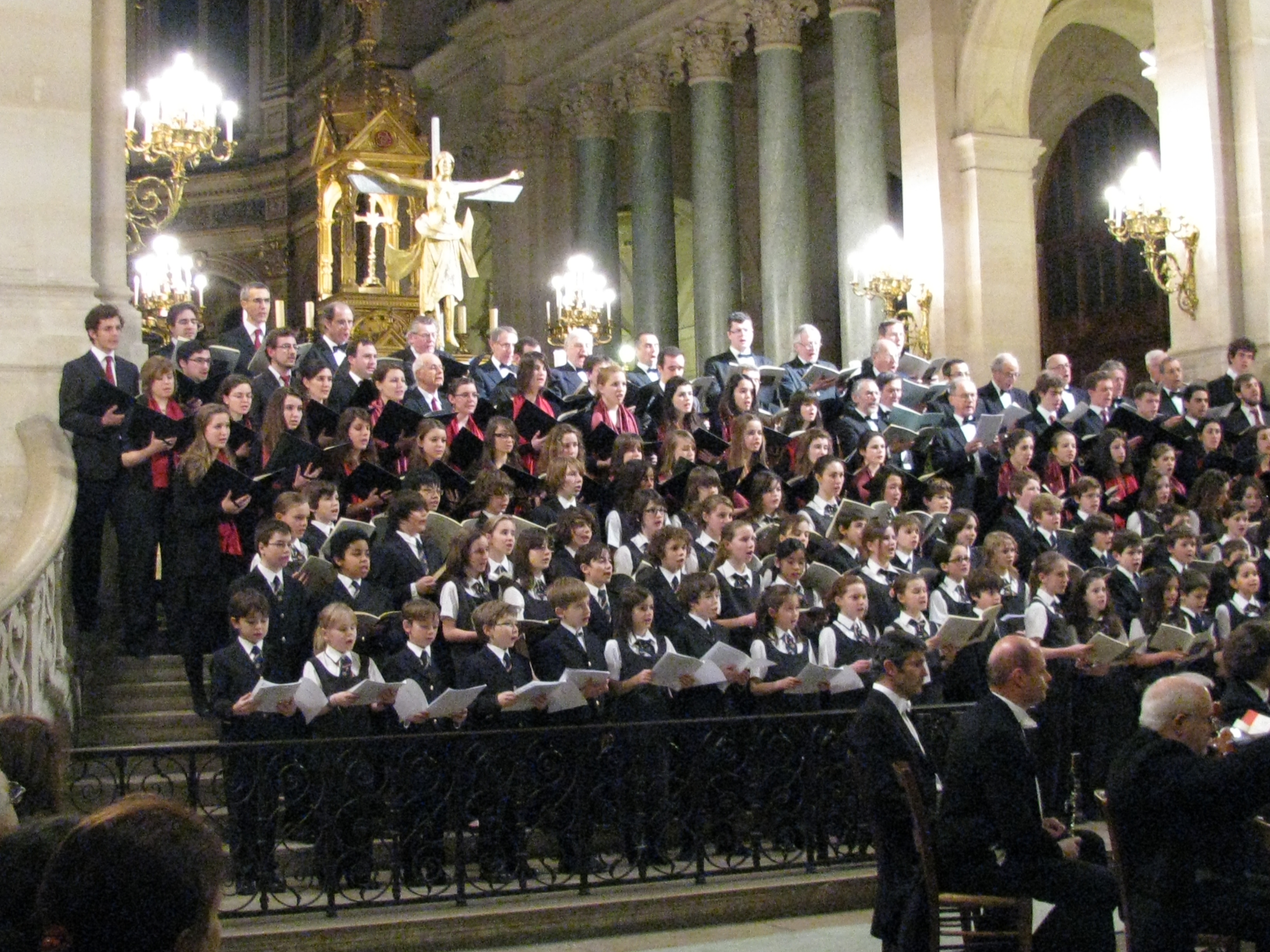 Other picture of the concert in the Trinite